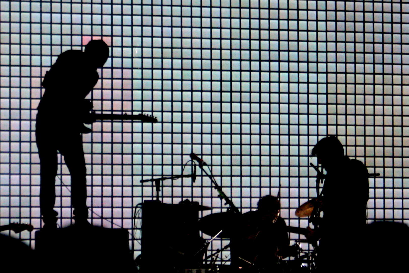 Athlete at the Academy